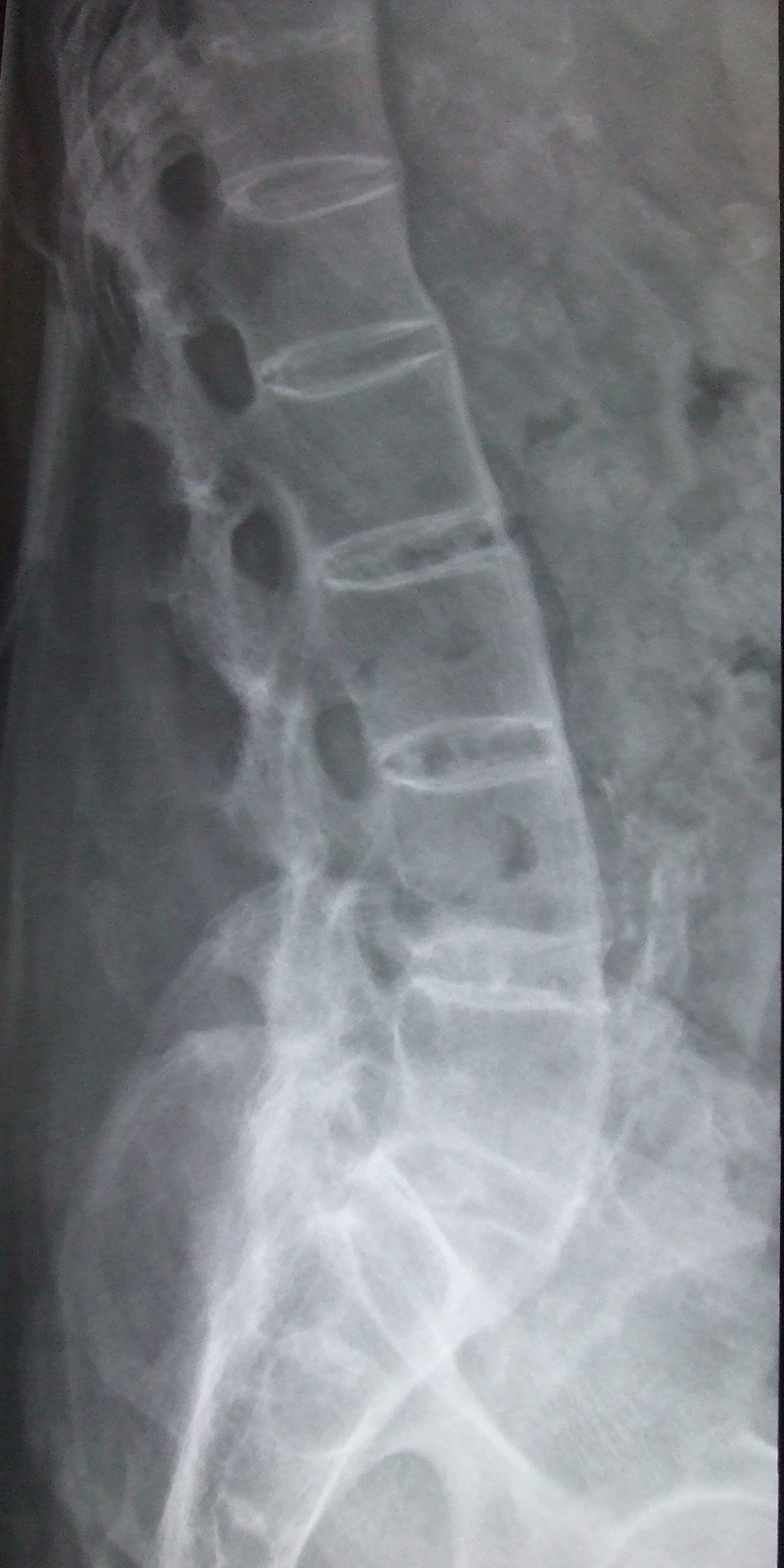 Lateral Lumbar Spine X-Ray demonstrating Ankylosing spondylitis